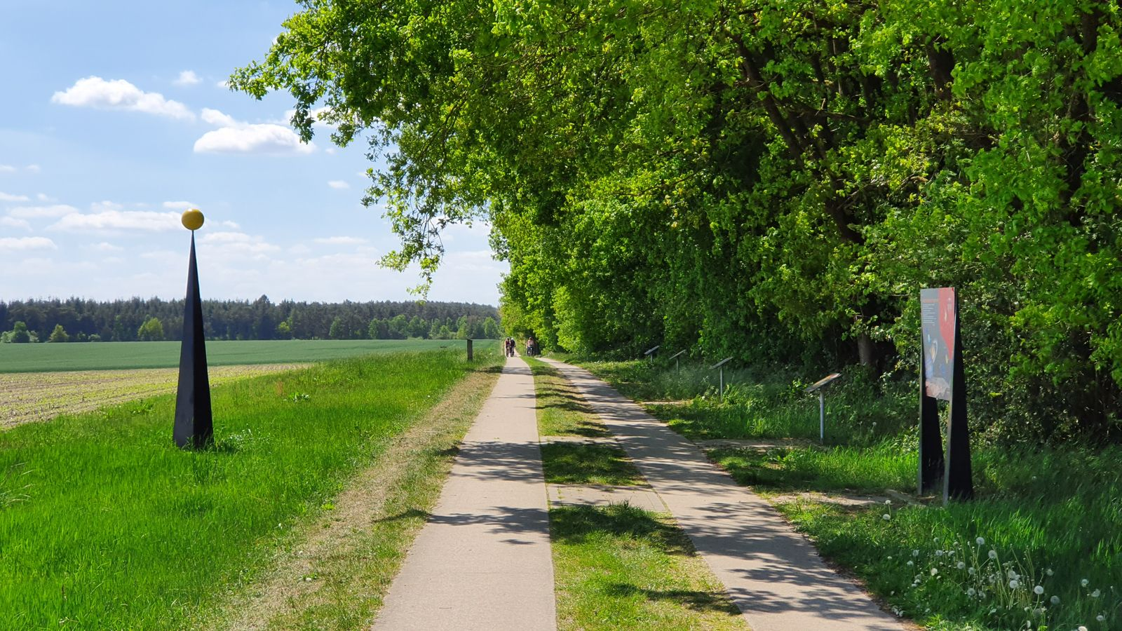 Planetary Trail Handeloh